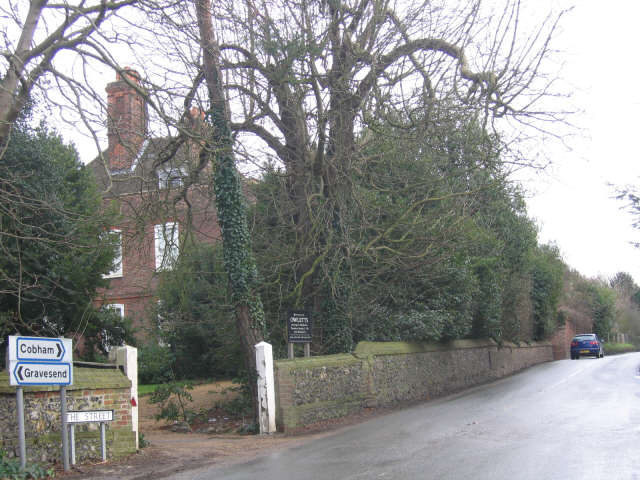 Owletts Owletts is a National Trust property, but not open regularly as it is still lived in.